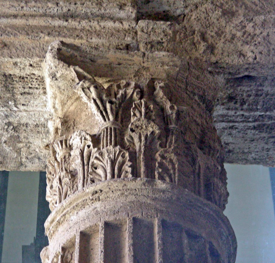 Italy, Latium, Rome's province, Palestrina, sanctuary of Fortuna Primigenia, corinthian capital in the criptoporticus under the theather terrace.